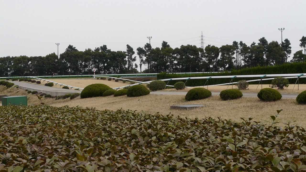 Chukyo_Racetrack_06